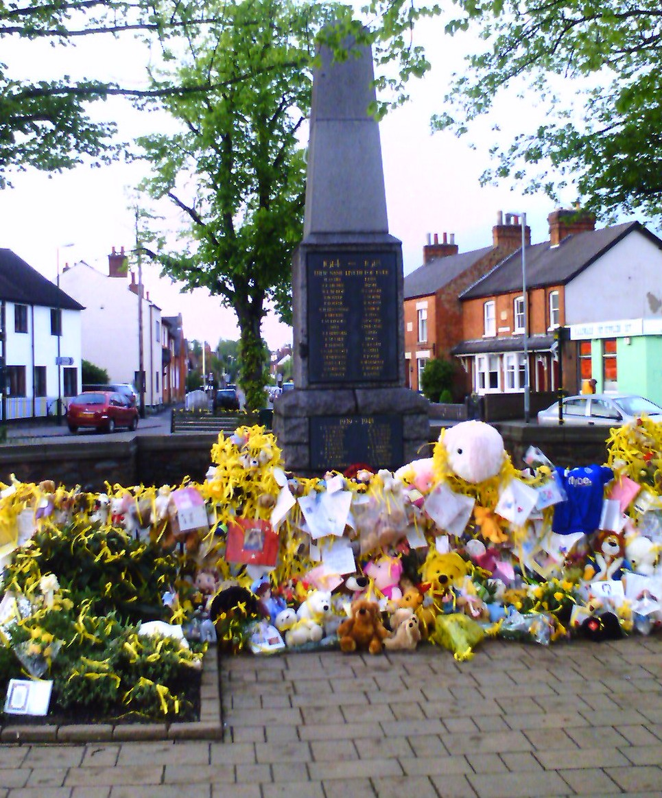 The tributes to Madeleine McCann in the square in her hometown of Rothley on 17 May 2007. Released into Public Domain by user:Quakerman who says the image is his work.